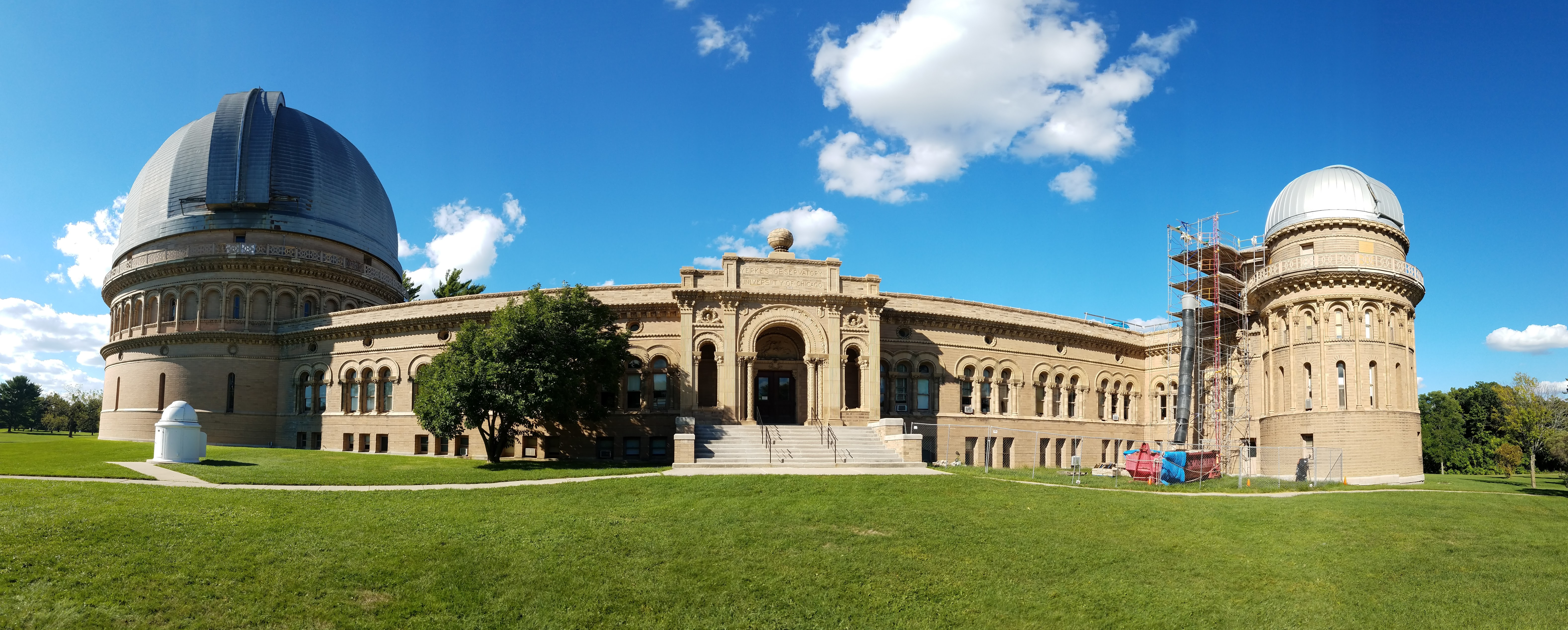 Yerkes Observatory located Williams Bay, United States of America rear side